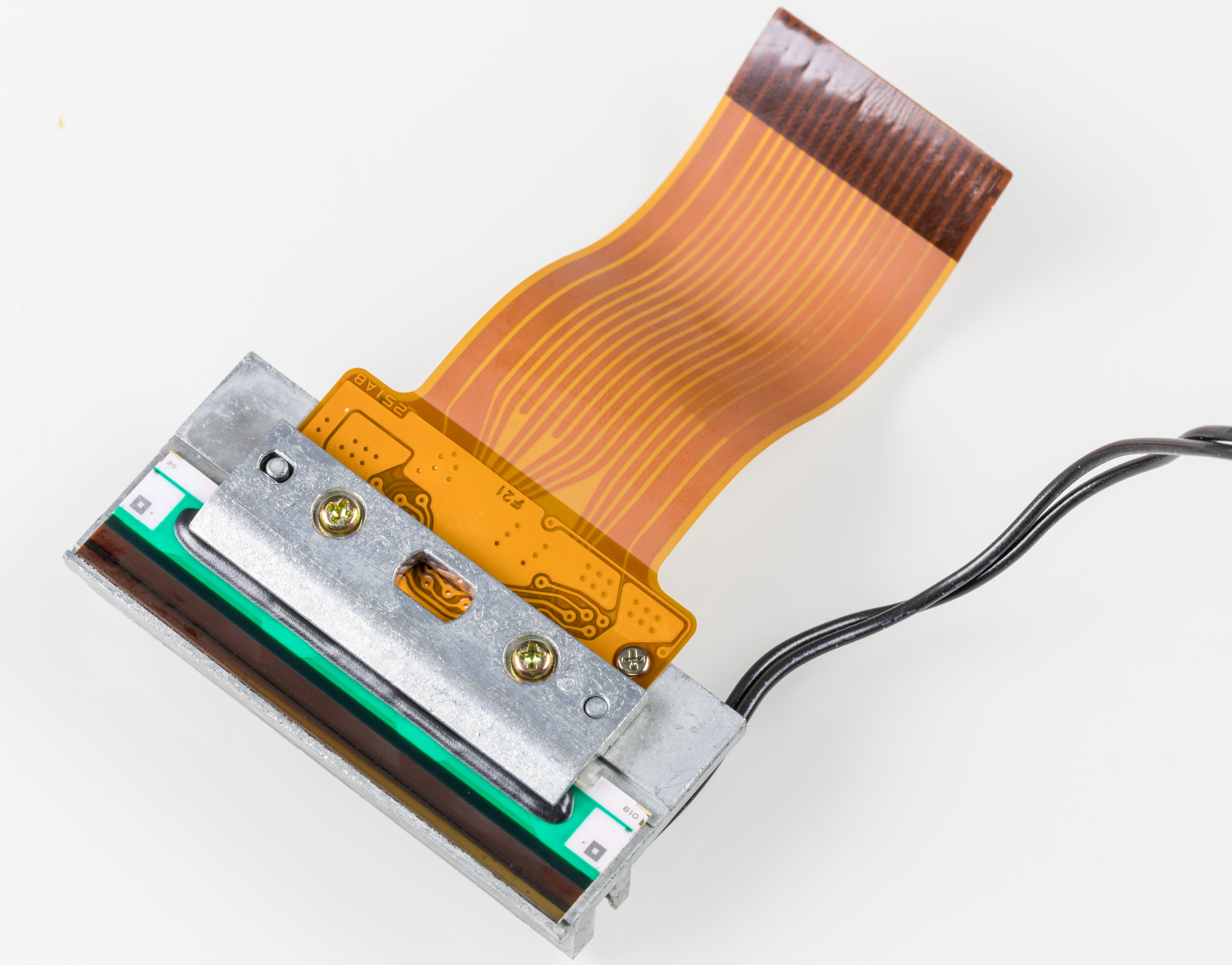 SII LTP251B-192 - Thermal head